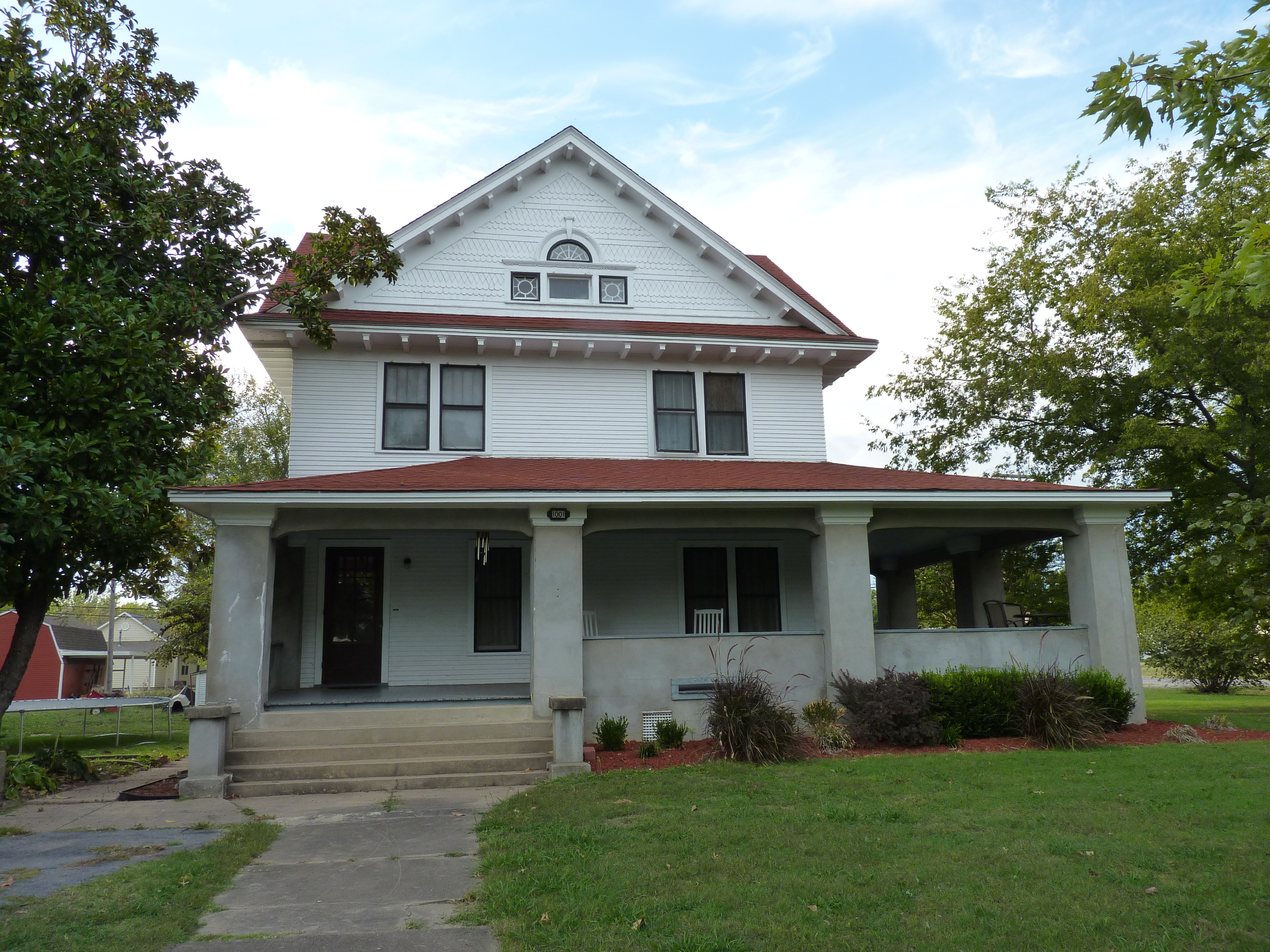 Photo of Hogue House in Chelsea, Oklahoma